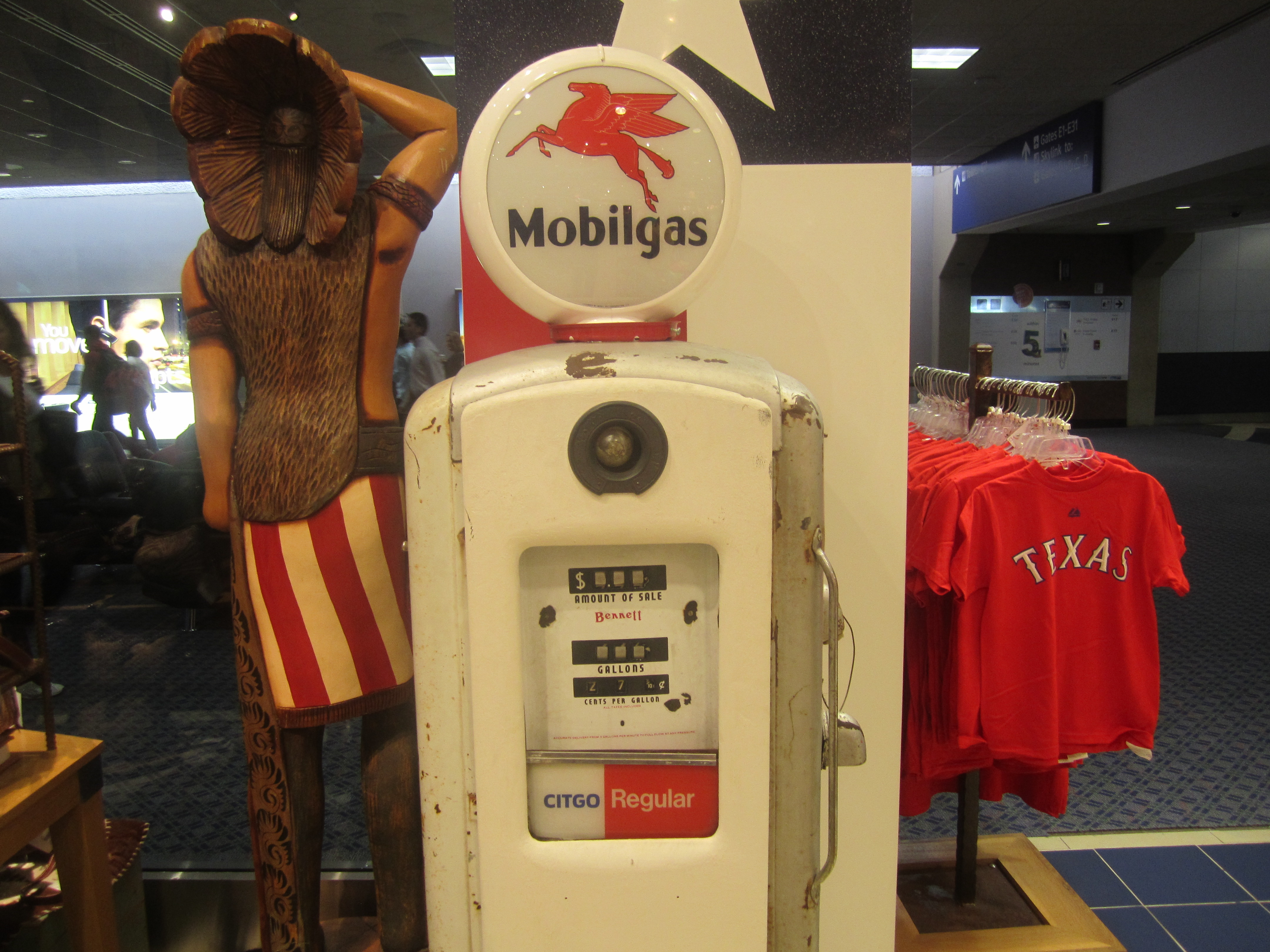 I took photo with Canon camera at Dallas/Fort Worth Airport of old Mobilgas pump.